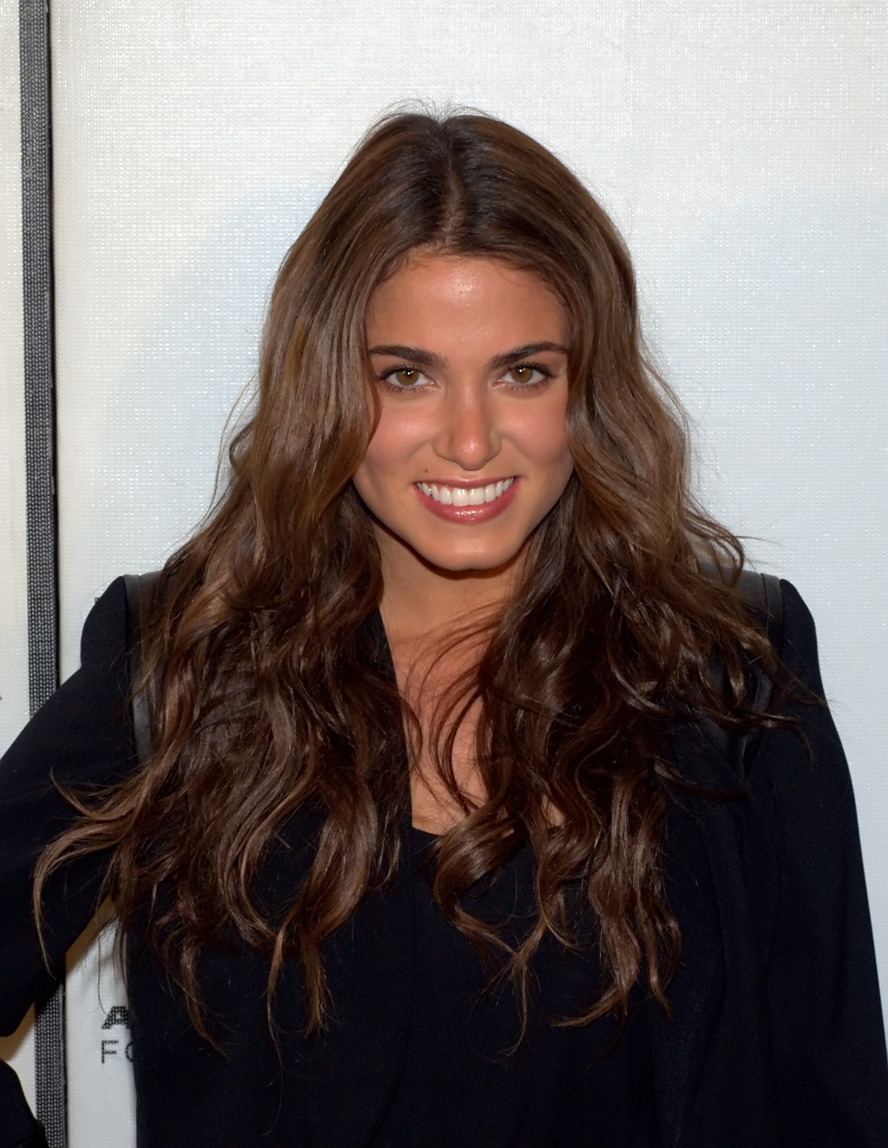 Nikki Reed at the premiere of Ondine at the 2010 Tribeca Film Festival.